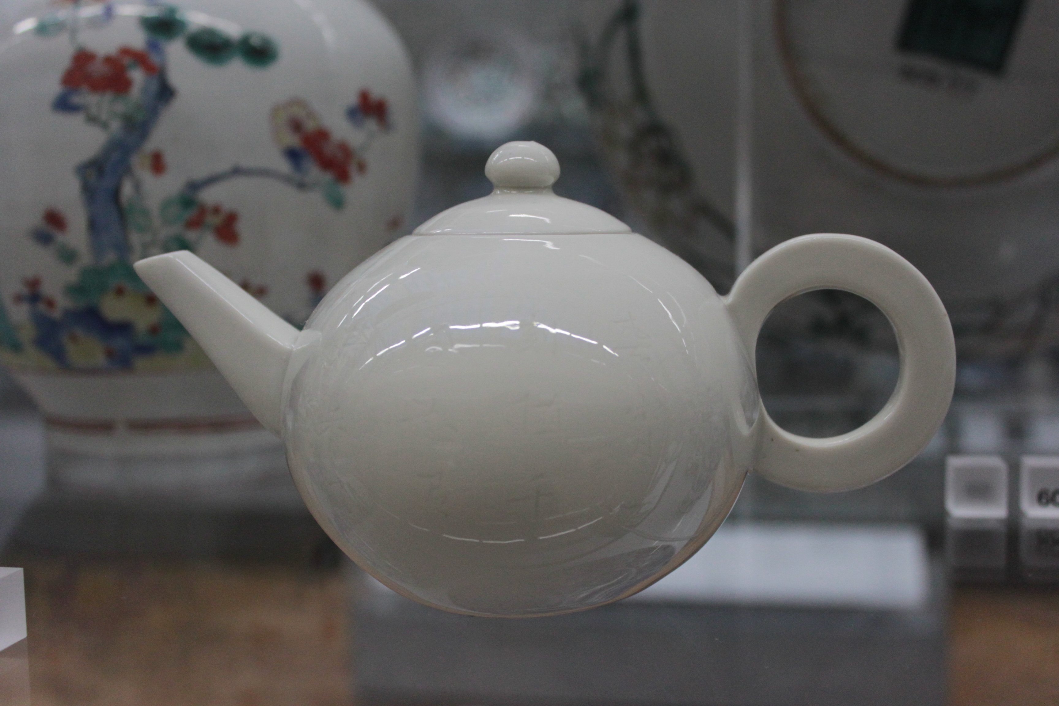 White Teapot China, Dehua 1690-1720 Porcelain, with ivory-coloured glaze This teapot was made at Dehua, of white porcelain known as \'blanc de Chine\' in the west. One side is very subtly incised with a design of rocks and plants, and the other with a poetic couplet that reads: \'At night in springtime one moment is precious like a thousand pieces of gold, the orchid sends forth its fragrance in the shade of the moon.\' These are the first two lines from a poem by the famous eleventh-century writer Su Shi. It might be assumed from this that the teapot had been commissioned by a scholar. However, Chinese scholars traditionally preferred the \'purple sand\' teapots from Yixing, not white ones from Dehua. Examples in Dehua porcelain were probably made after the kilns diversified into tea-ware production, following demands from European merchants for European shapes. Dehua wares were closely copied at European porcelain factories, notably Meissen, Chantilly and Bow. Ceramic historians argue that Dehua\'s raw materials are superior to those of Jingdezhen, but the kilns had no access to water transportation and until the arrival of European merchants most of its productions were sold locally. The base is inscribed with the name of the Emperor Xuande, who reigned from 1426 to 1435, more than 250 years before the teapot was made. The use of earlier reign marks has a long history in China, much t the vexation of modern researchers, and was intended to indicate respect rather than to deceive. The teapot\'s bold geometric design anticipates the forms of European modernism by more than two centuries. W.G. Gulland Bequest Collection ID: CIRC.62&A-1931 This photo was taken as part of Britain Loves Wikipedia in February 2010 by Jenny O'Donnell.